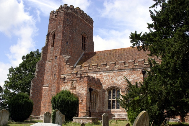 St Mary the Virgin Church, Layer Marney St Mary the Virgin Church, Layer Marney. Built in the 16th century this lovely church is just down the road from the Layer Marney Tower.